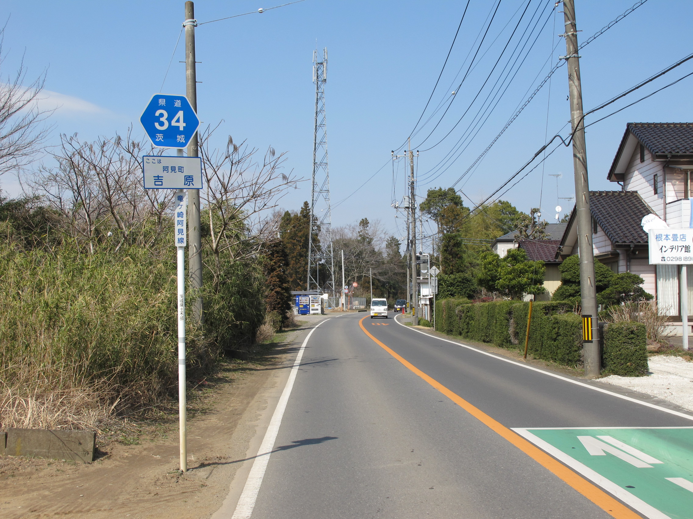 The Ibaraki Prefectural Road Route 34 in Yoshiwara, Ami Town